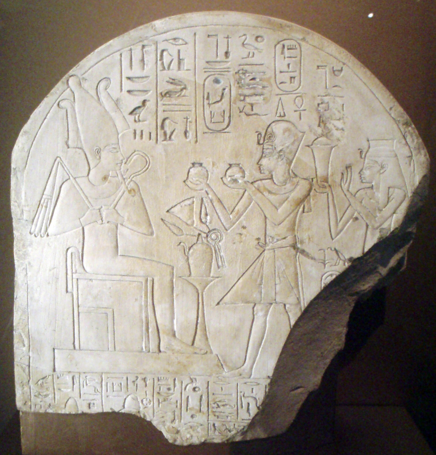 Stela Osiris depicting Amenhotep I and Ahmose-Nofretari.